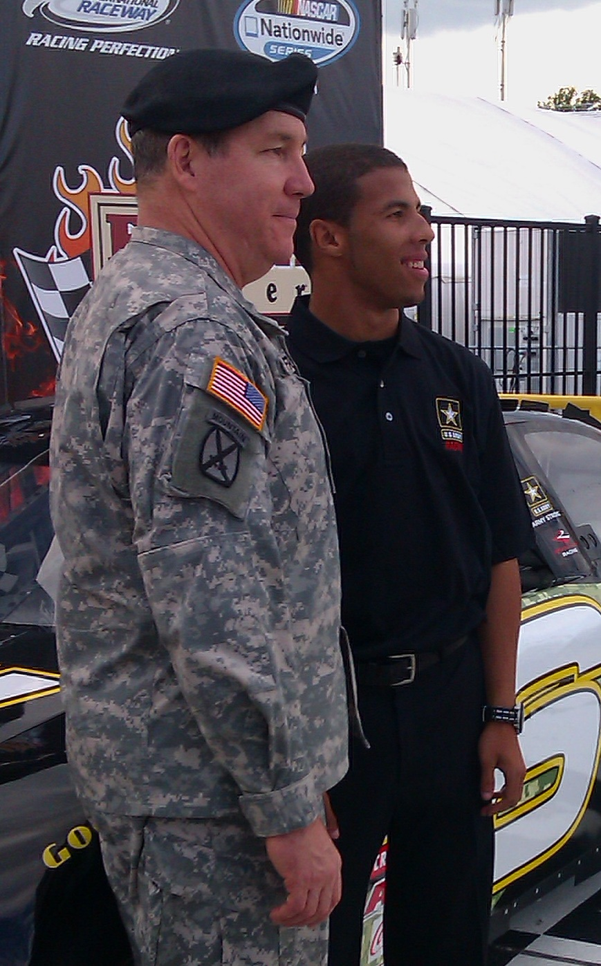 Lt. Gen. Benjamin Freakley, (left), Commander US Army Accessions Command, and Darrell Wallace, Jr. driver for Revolution Racing, unveil car #6 at the Richmond International Raceway April 29, 2011. (Photo by Crystal Guerrero, USAAC G7)